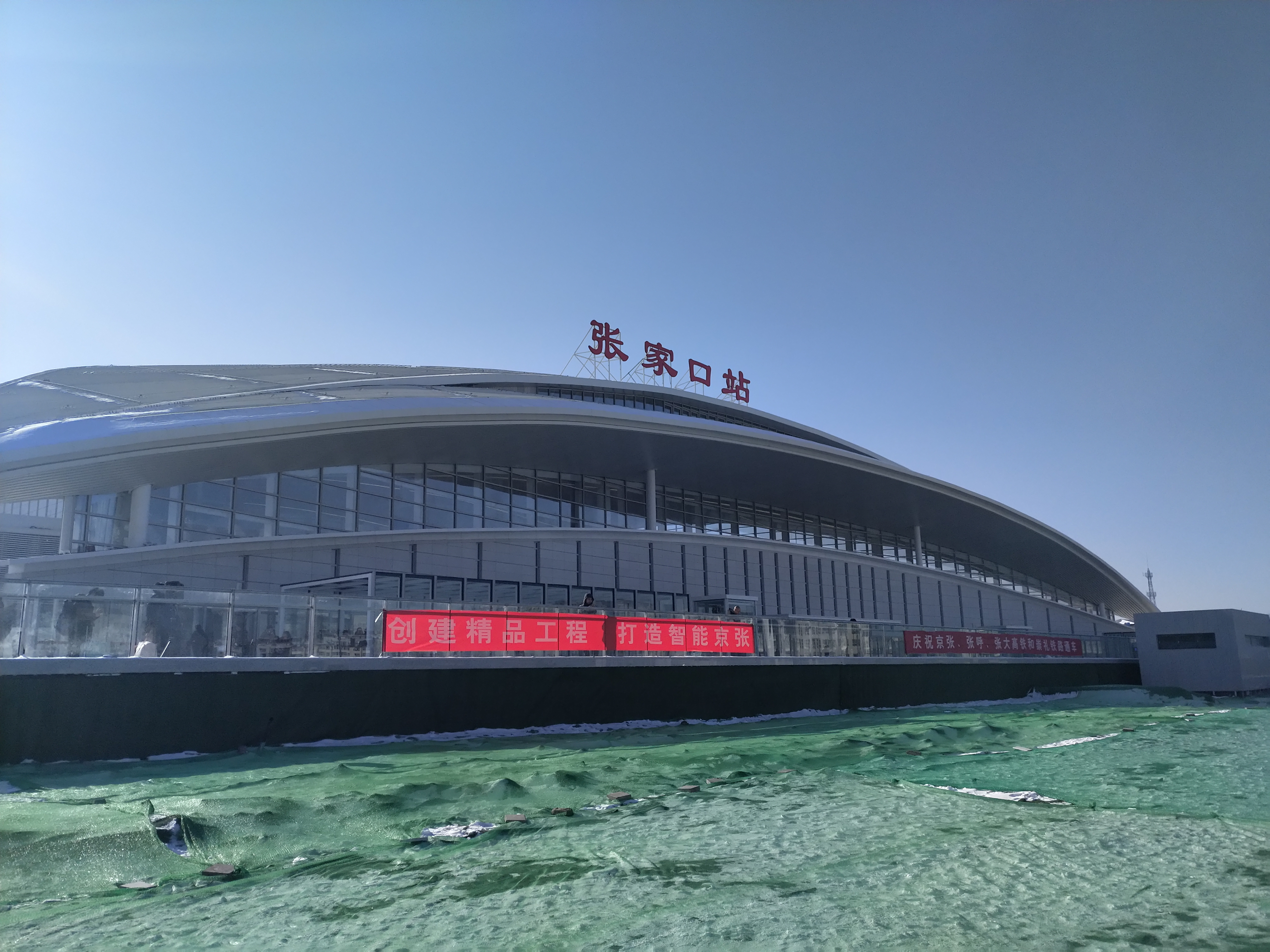 New Zhangjiakou Railway Station open in December 30, 2019.Fomerly Zhangjiakou South Railway Station.